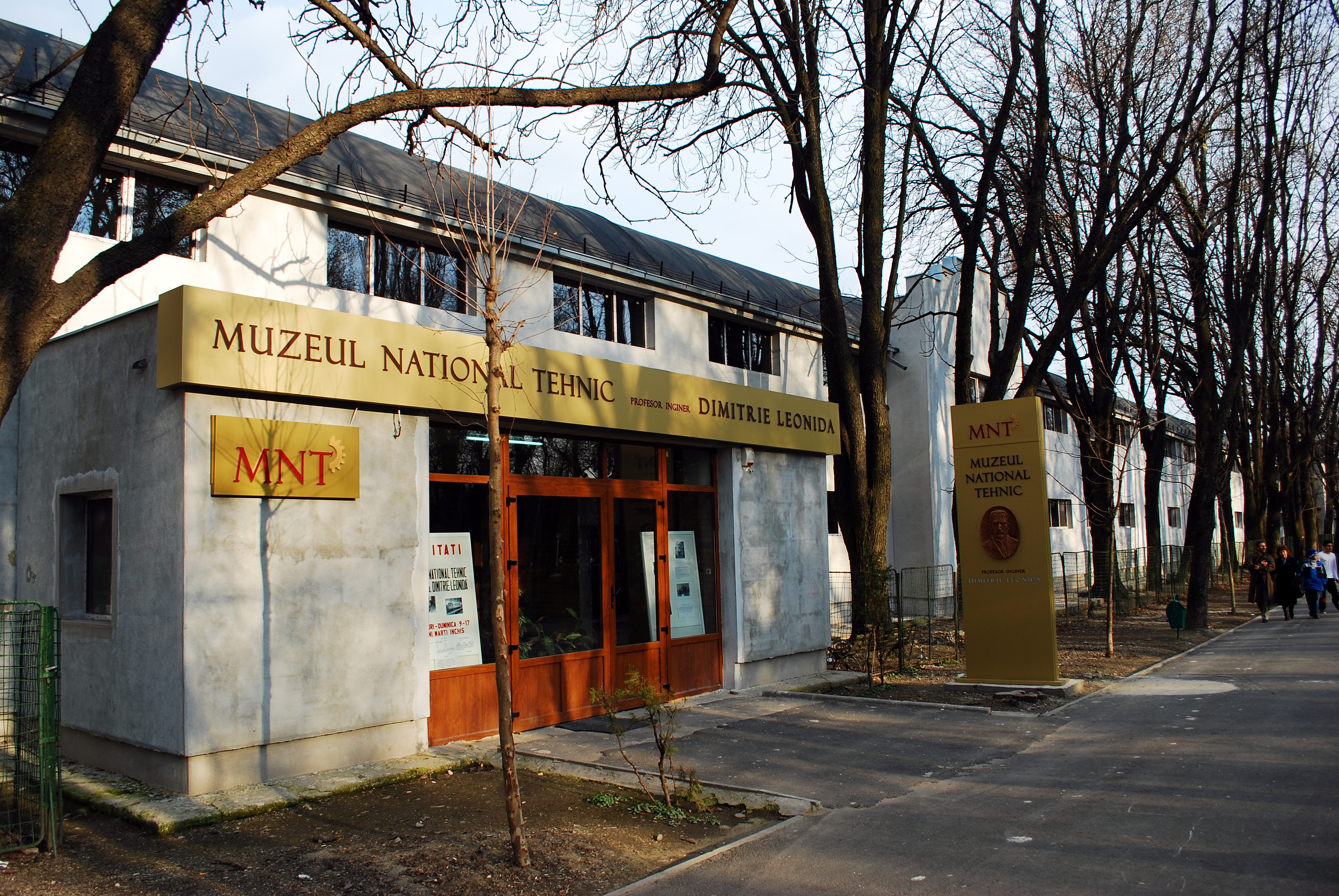 The Dimitrie Leonida National Technical Museum in Bucharest, Romania